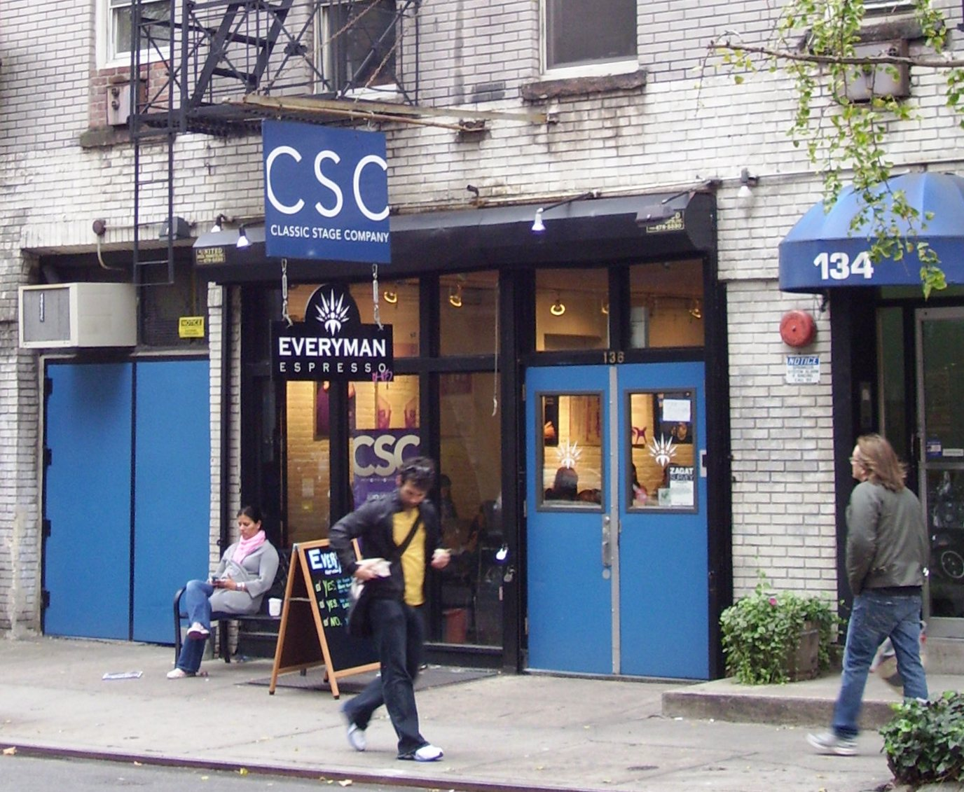 CSC Classic Stage Company at 136 East 13th Street, between 3rd and 4th Avenues, in the East Village, Manhattan, New York.